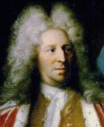 Nicodemus Tessin d.y. (1654-1728)